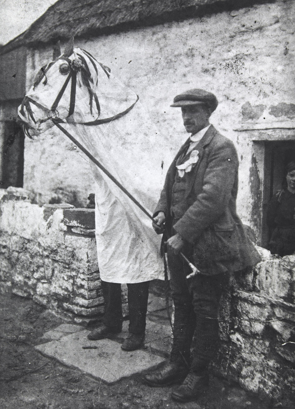 The 'Mari Lwyd' at Llangynwyd. This was a type of Hobby Horse paraded from door to door in tradition Welsh celebrations such as Calan Gaeaf.